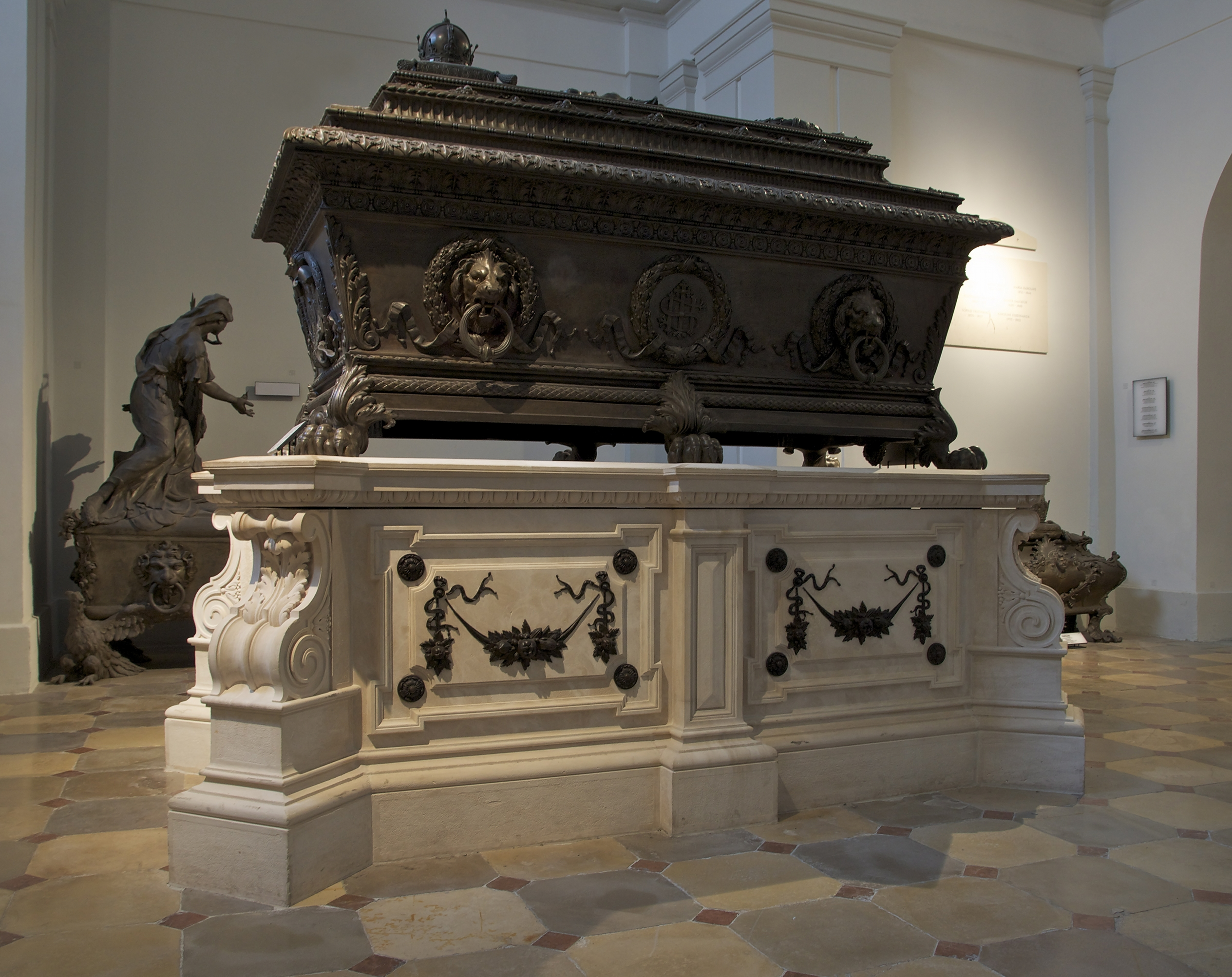 The sarcophagus of emperor Ferdinand I of Austria, Kapuziner Gruft, Vienna, Austria.